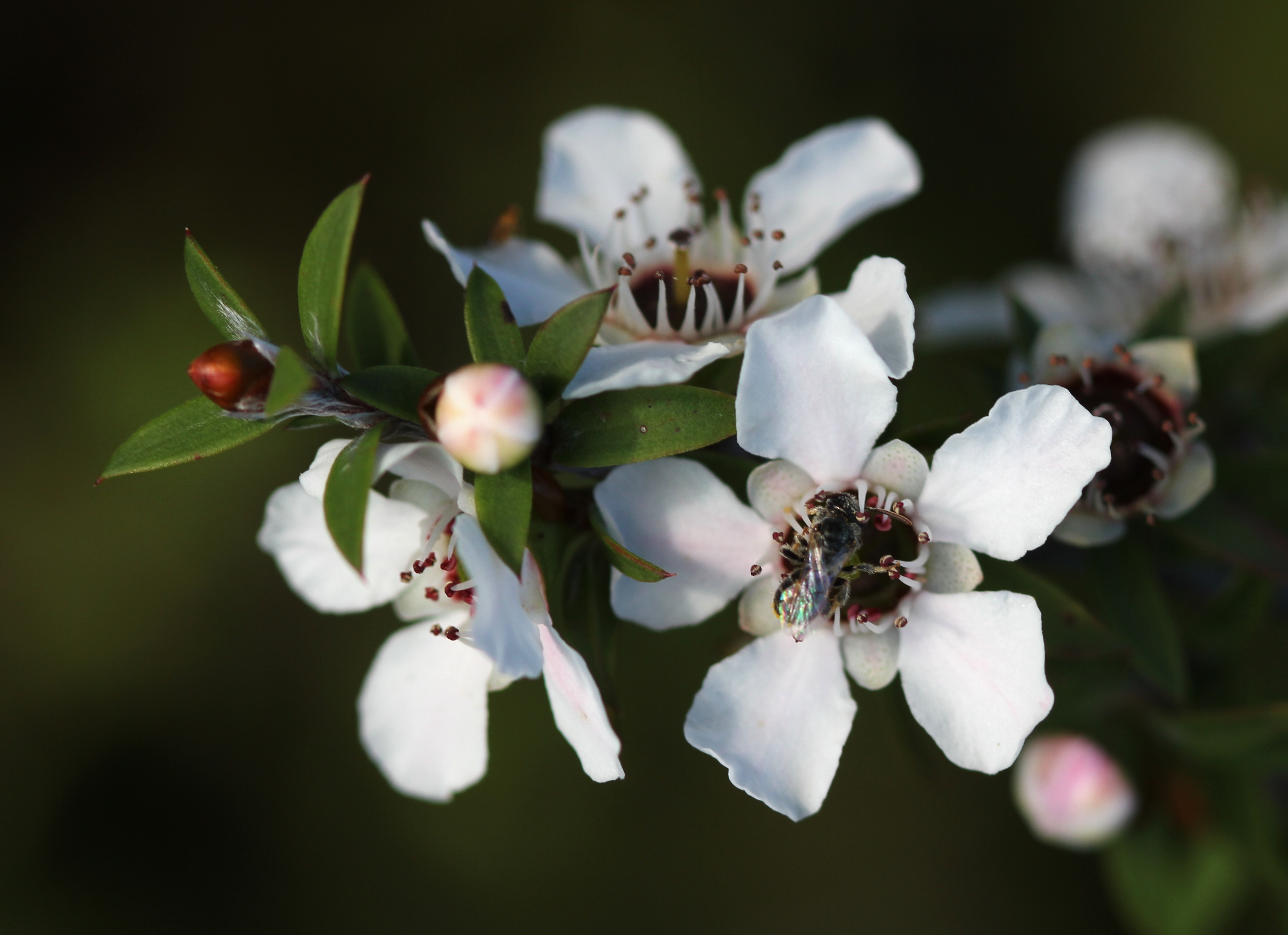 A native New Zealand bee (probably Leioproctus sp.) visits a manuka flower (Leptospermum scoparium). Photo taken on Tiritiri Matangi Island.